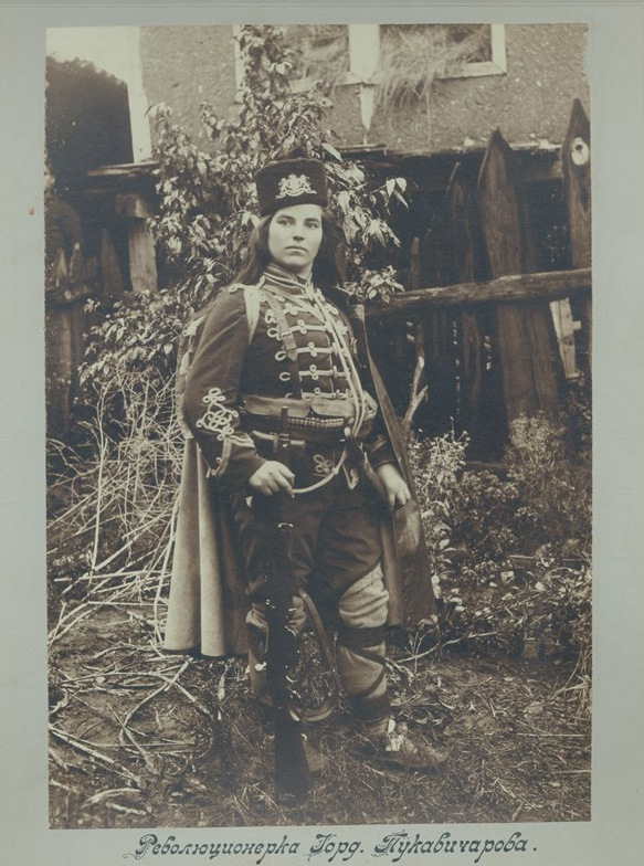 Yurdanka Pukavicharova